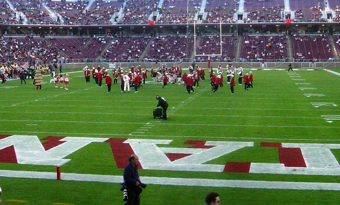 The Stanford Band at Stanford Stadium doing a pre-game show. This was a smaller band than usual, as the athletic department had banned all alumni from playing. Also, the "pre-game show" was limited to the formation of "USA" and the playing of the Star-Spangled Banner. This was because the Band had been prohibited from performing actual field shows earlier in the year as a condition of their provisional status. Photo taken by Bobak Ha'Eri, on November 4, 2006. Please observe license and properly cite in use outside Wikipedia.